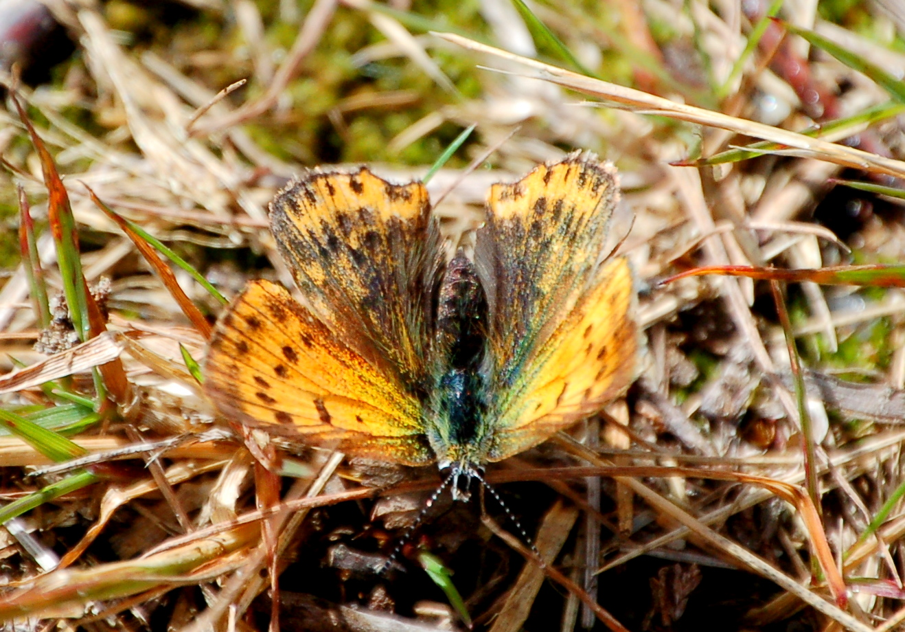 Scarce Copper (Lycaena virgaureae)- female, Blefjell, Norway